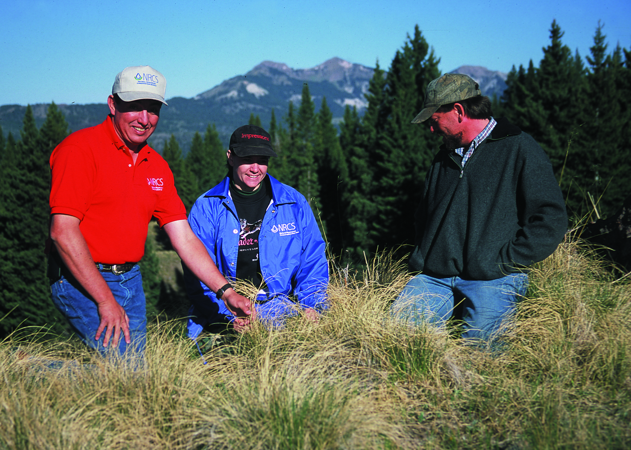 Northwest Field Team Leader Norm Vigil (red) and Soil Conservationist Jill Jensen (blue) provide grazing recommendations for a ranch that specializes in raising elk for hunting. Chama, New Mexico.